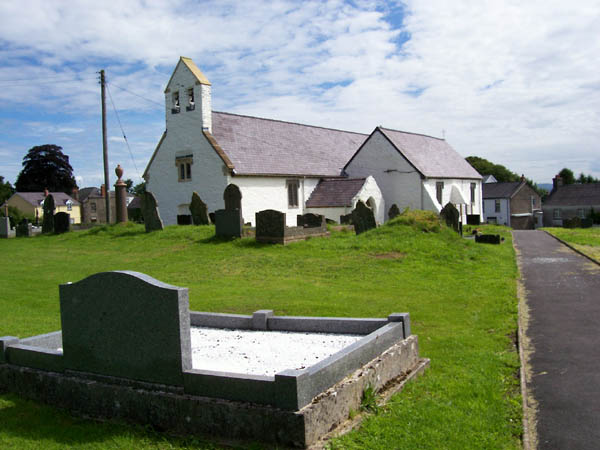 Llansadwrn Churchyard Looking across the spacious churchyard.